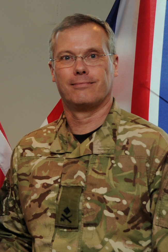 Lt. Gen. David Halverson, deputy commanding general of U.S. Army Training and Doctrine Command, poses for a photo with Maj. Gen. Bruce Brealey, director general for the United Kingdom's Force Development and Training Command, April 30, 2013. Brealey is the UK's equivalent to the director of the Army Capabilities Integration Center, and this was his second visit to TRADOC. In addition to office calls with Halverson and Lt. Gen. Keith Walker, director of ARCIC, Brealey also had in-depth discussions with ARCIC directorate leads about ARCIC's roles and responsibilities in concept development, requirements determination and capability assessment. (U.S. Army photo by Staff Sgt. Steven Schneider)